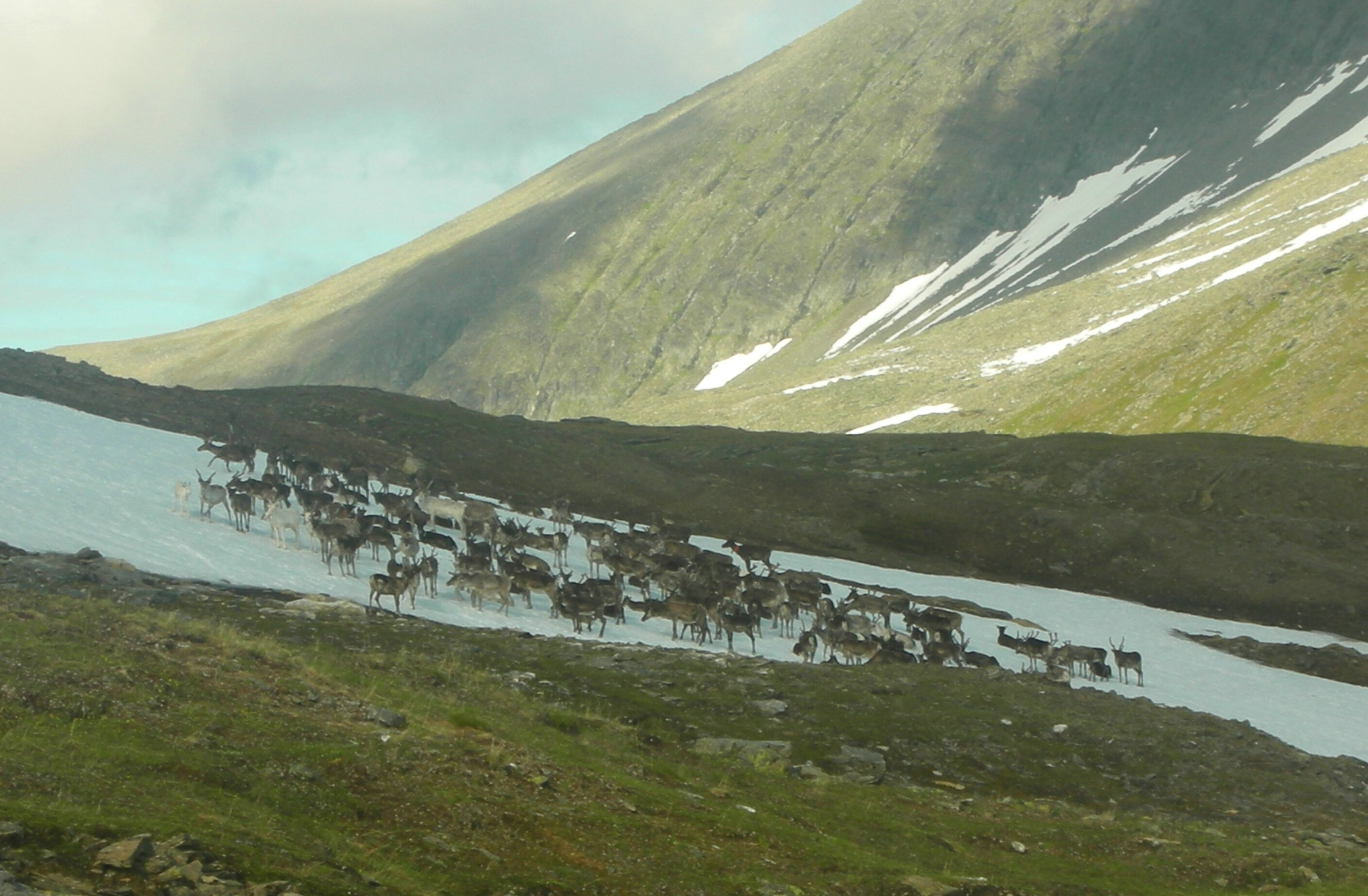 Reindeers near Tromsdalstind, Tromsø, Norway.